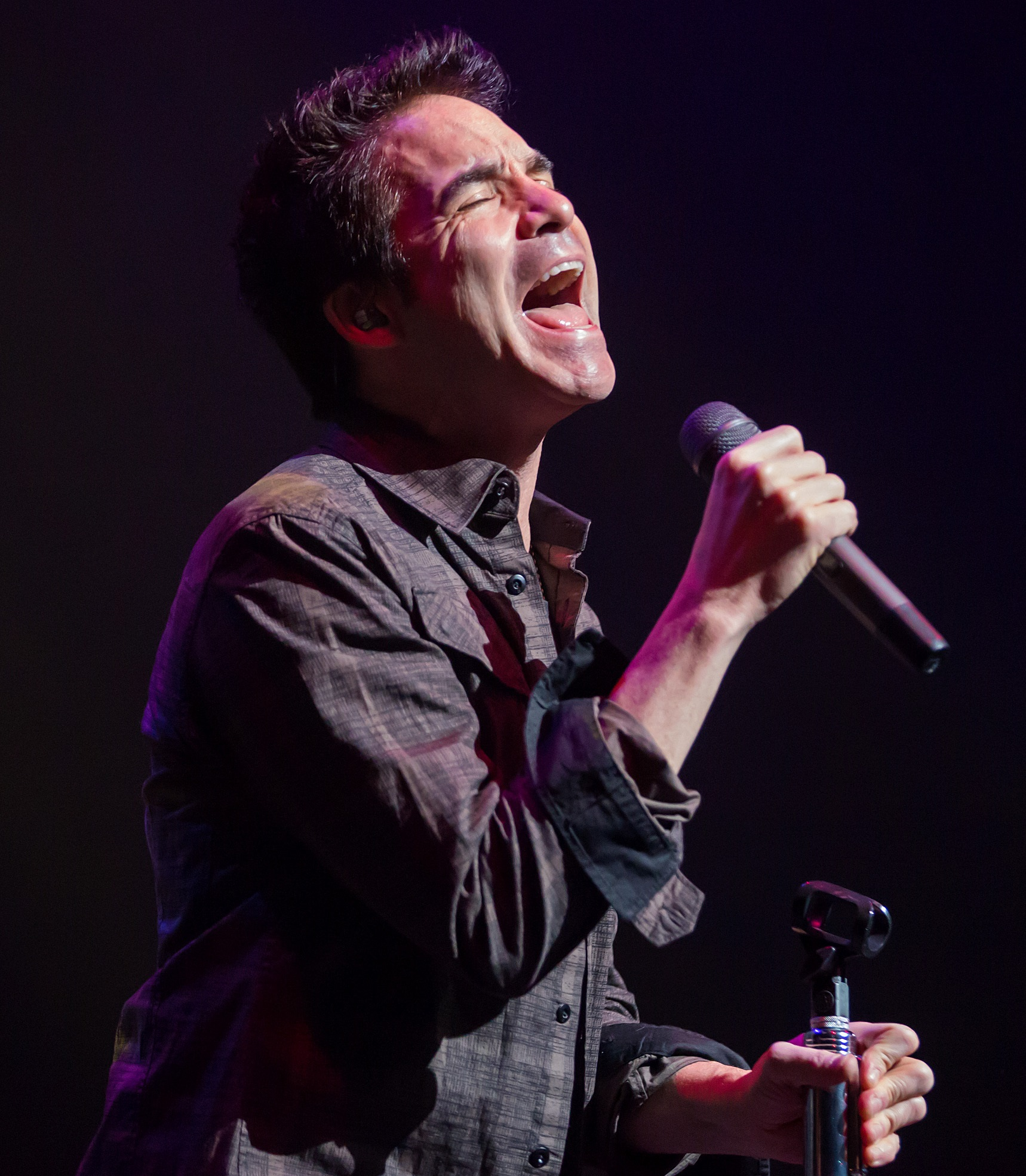 Train performing at ACL Live in Austin, Texas